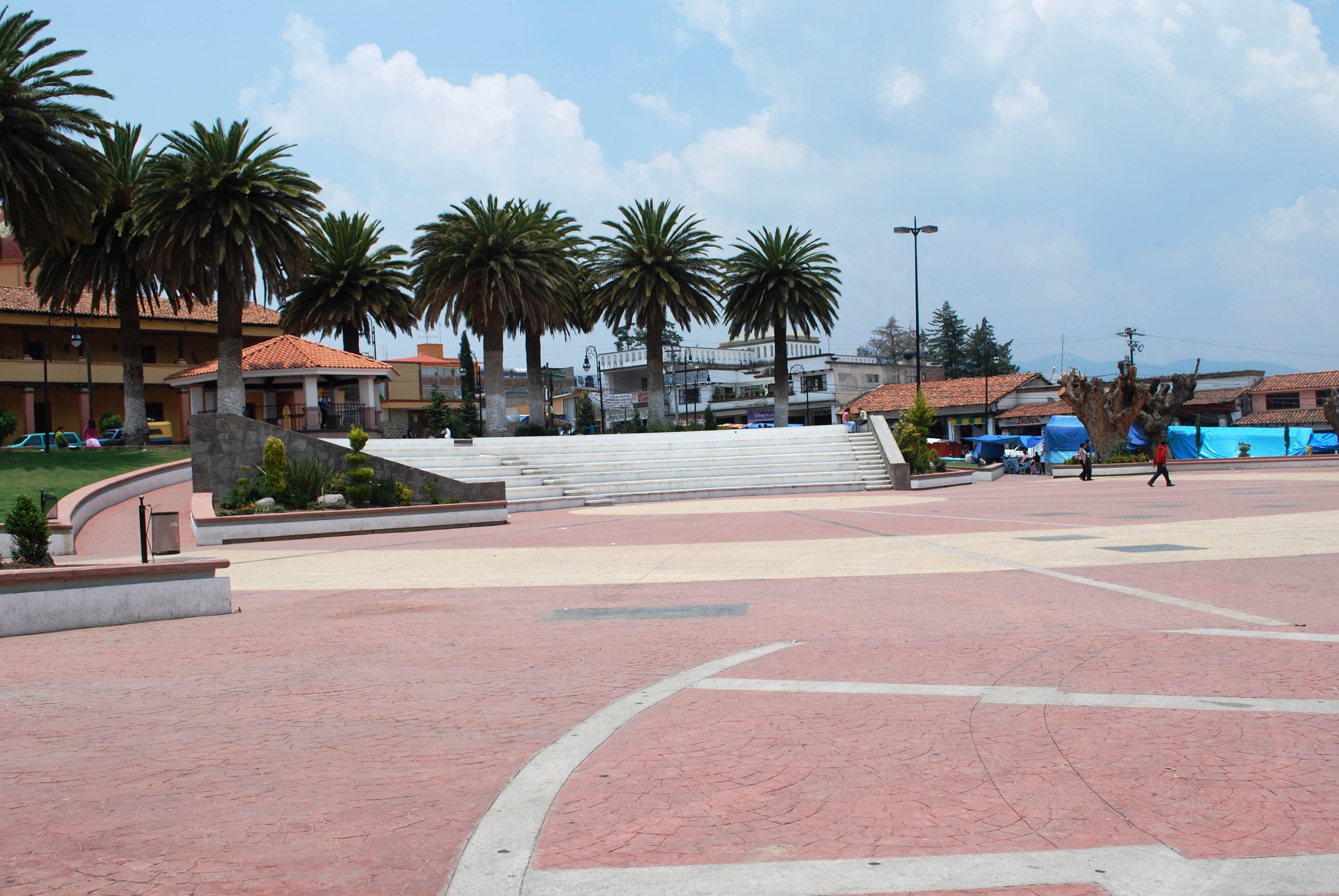 View of the main plaza of Temoaya, Mexico State